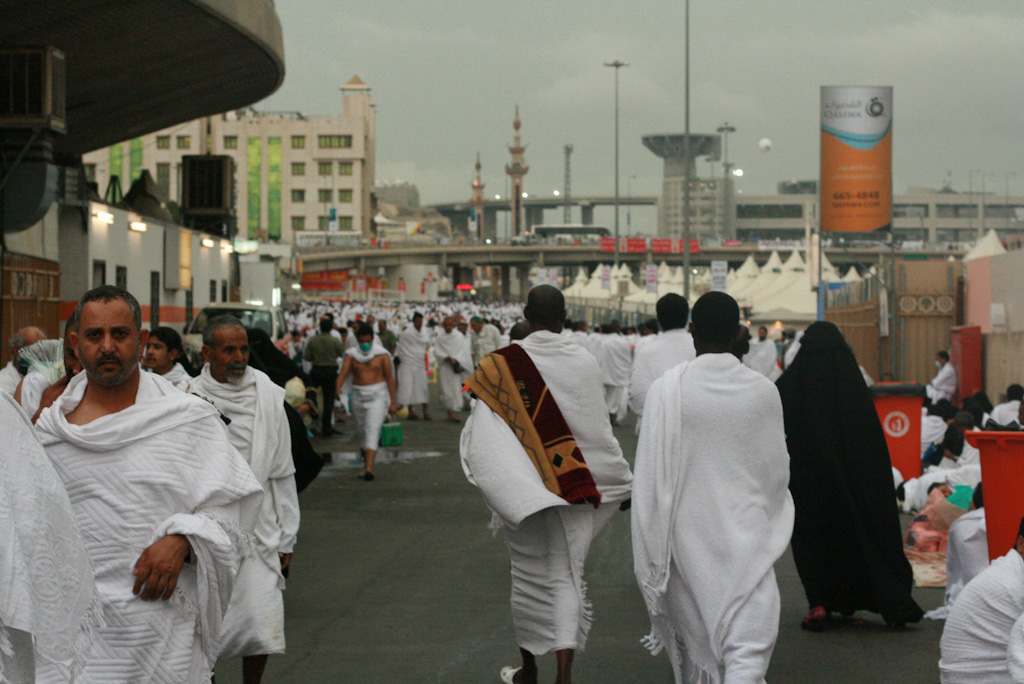 Entring Mina